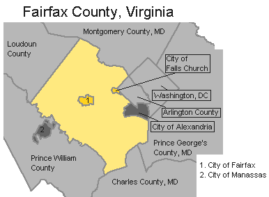 Cropped version to eliminate duplicative portions (modified by User:RussBlau from public domain image uploaded by User:Rfc1394)